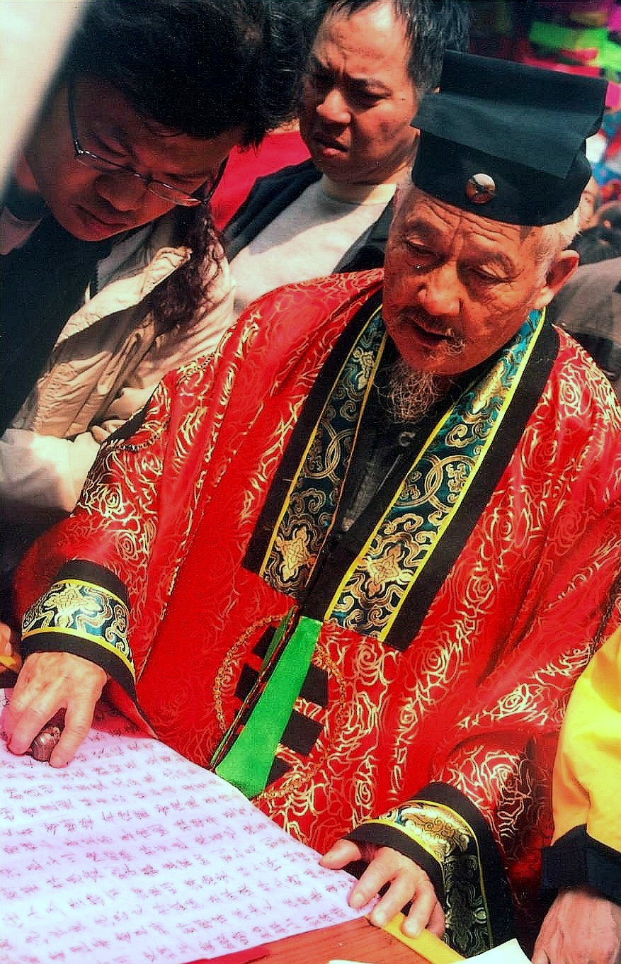 Taoist Priest in Macau, February 2006. More photos available at